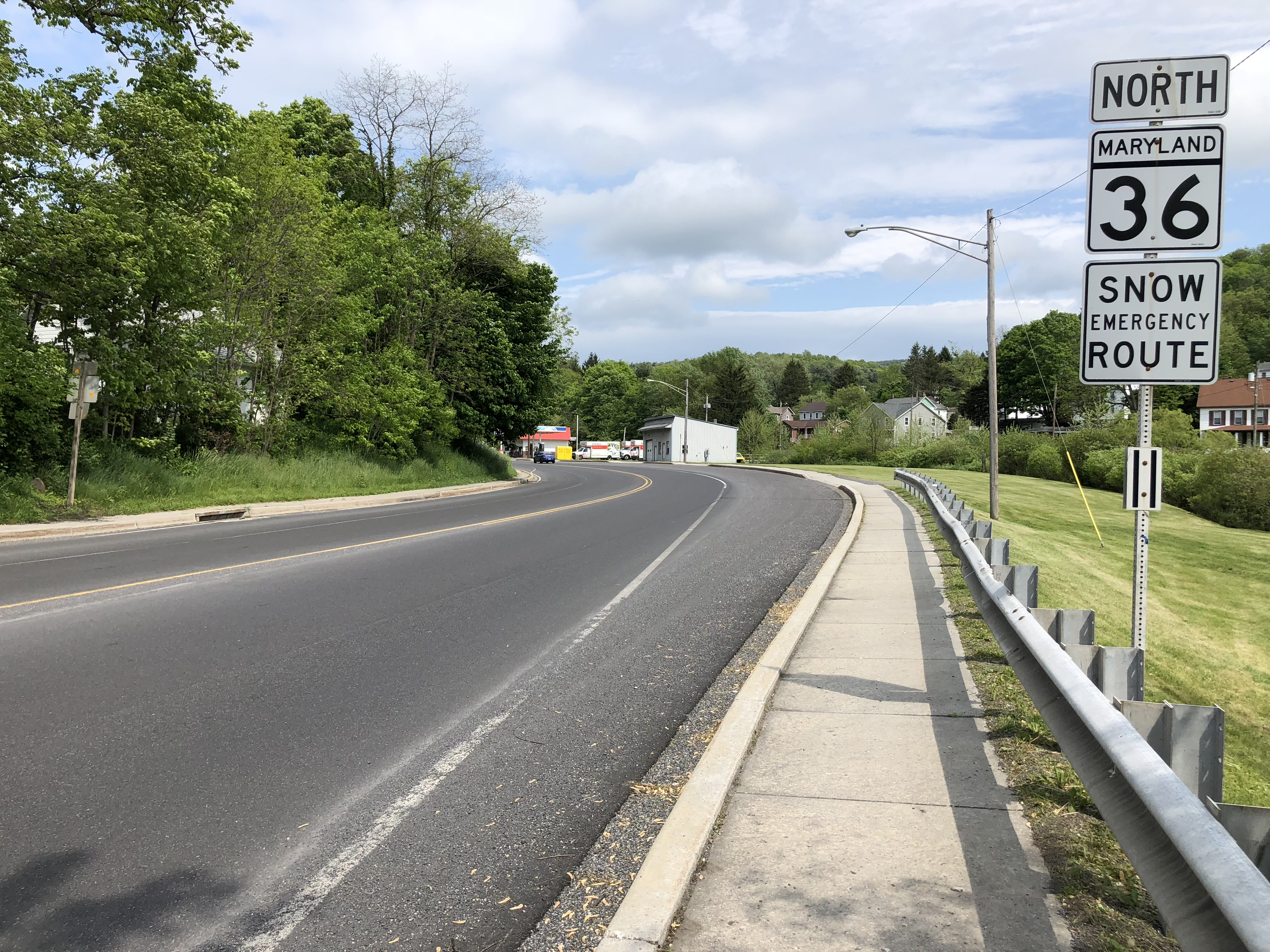 View north along Maryland State Route 36 (New Georges Creek Road/Main Street) at Maryland State Route 936 (Church Street) in Midland, Allegany County, Maryland